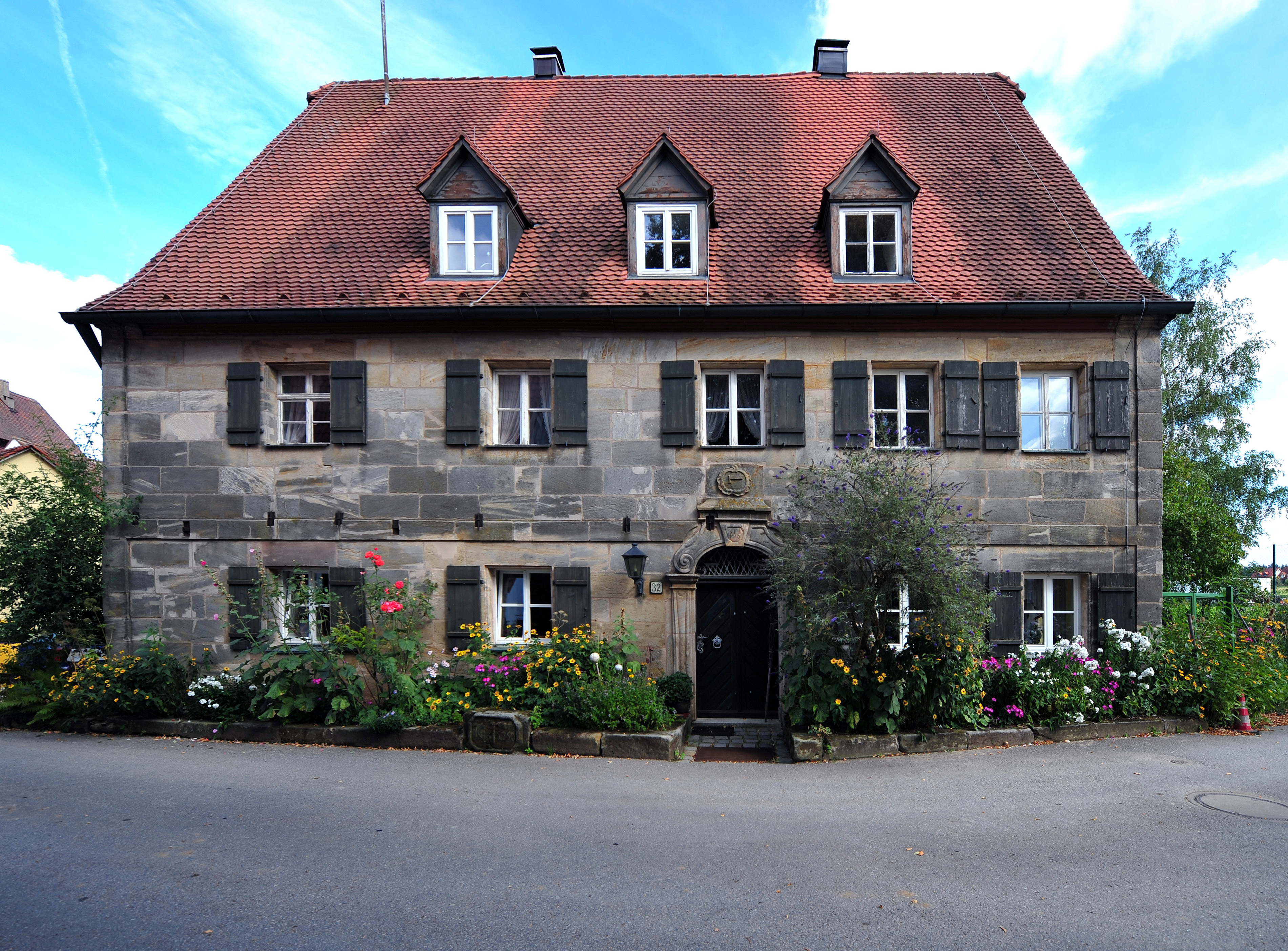 Kleingeschaidt 32, Heroldsberg This is a photograph of an architectural monument.